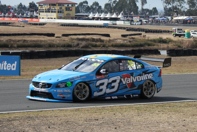 Car #33 of Scott McLaughin, sporting NASCAR-style side numbers at the 2014 Coates Hire Ipswich 400.